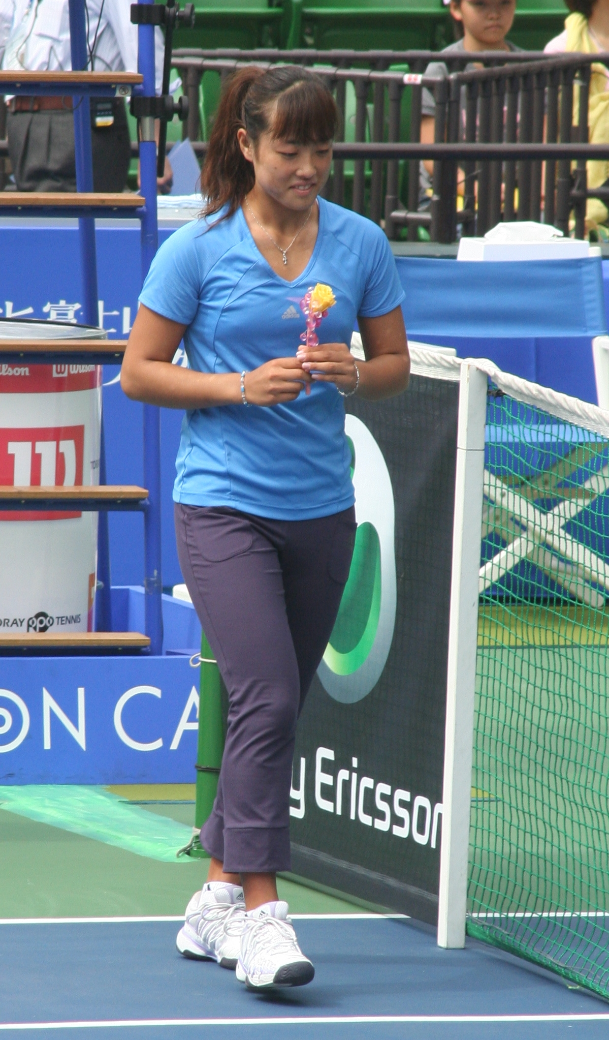 Japanese Tennis player Ayumi Morita during the retirement ceremony for her colleague Ai Sugiyama on the opening day of the Toray Pan Pacific Open 2009 in Tokyo.